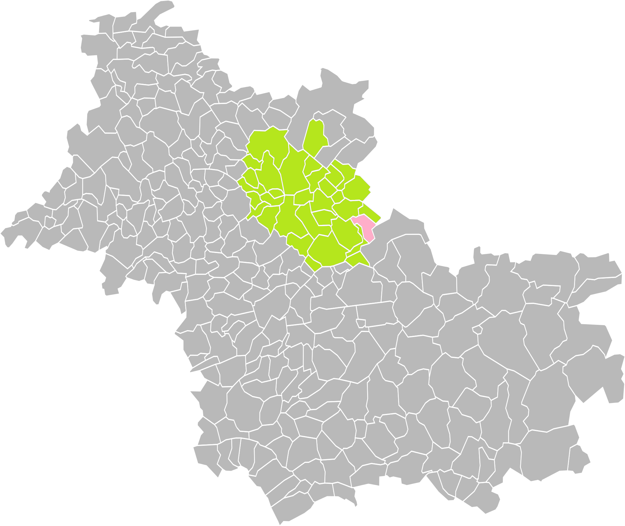 Location of the commune of Avaray in the Communauté de communes de la Beauce-Val de Loire (Loir-et-Cher)